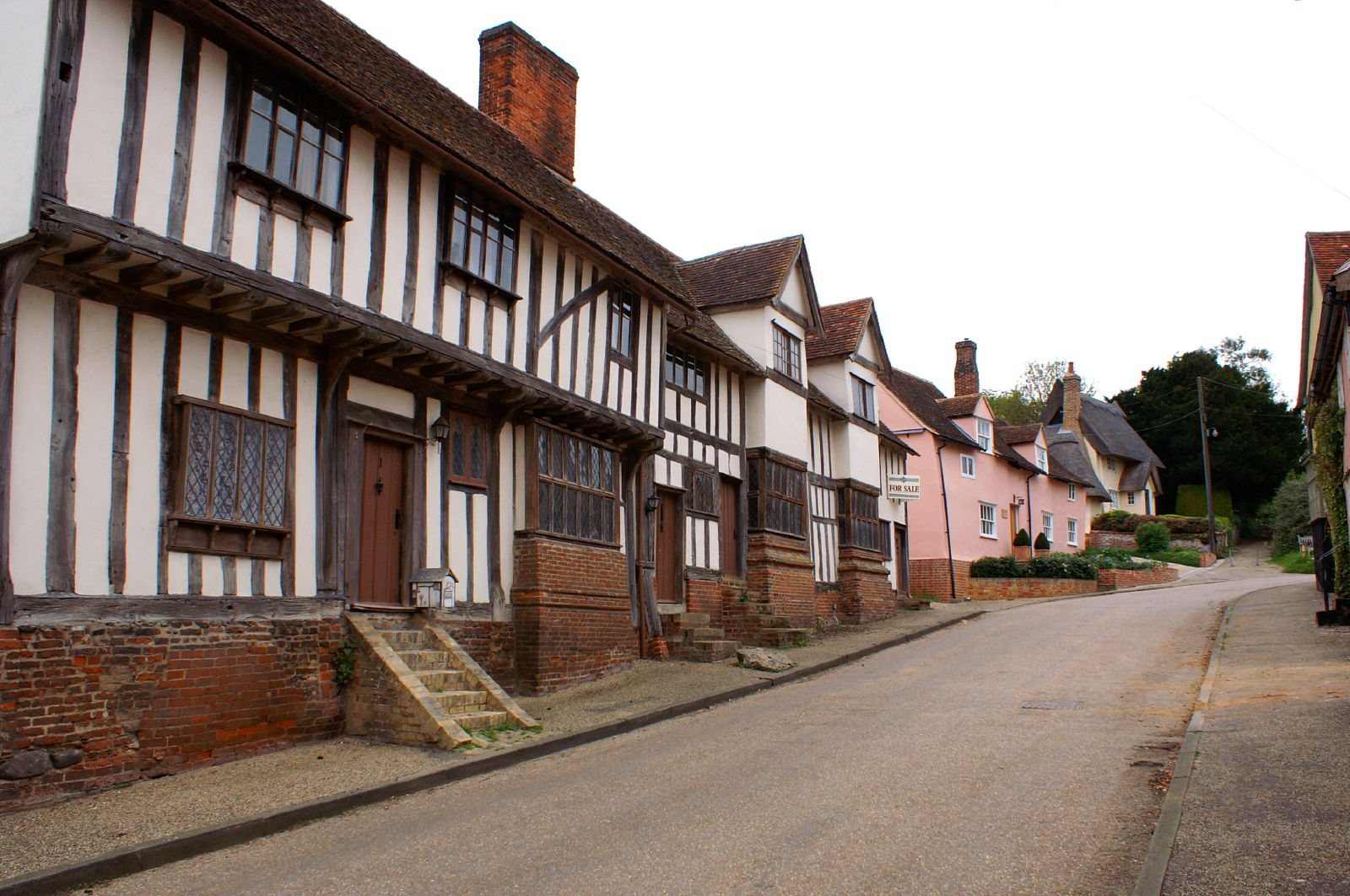 Ancient cottages in Kersey, Suffolk, England. It's a Grade I listed building.